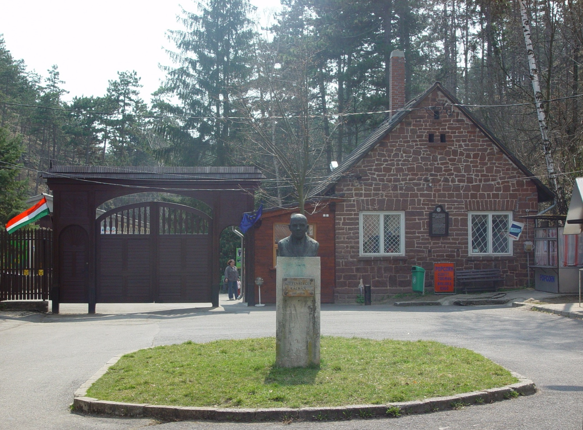 A bust of Kálmán Kittenberger, in front of the Veszprém Zoo's entrance